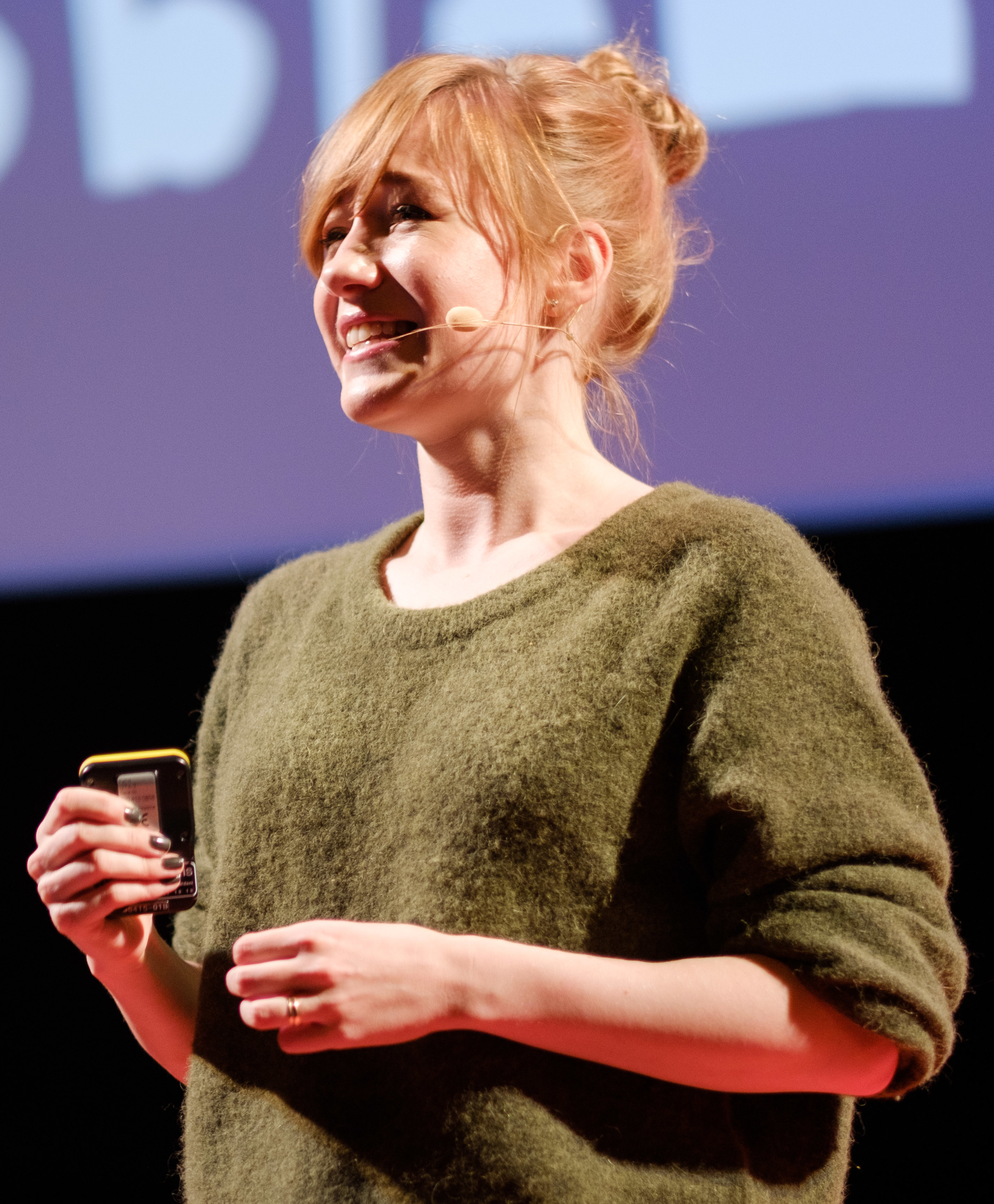 The European Data of Tomorrow Conference was both an educating and inspiring event about information, data and all its relevant, innovative and value-adding aspects. Data of Tomorrow gave attendees a glimpse of the future of Master Data Management (MDM), technology and industry trends – and the tools to shape it. The conference took place on September 20 and 21 in the EYE filmmuseum in Amsterdam, The Netherlands.